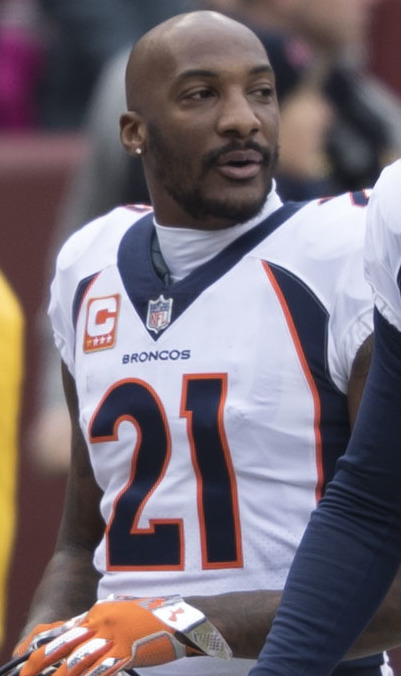 Broncos at Redskins 12/24/17